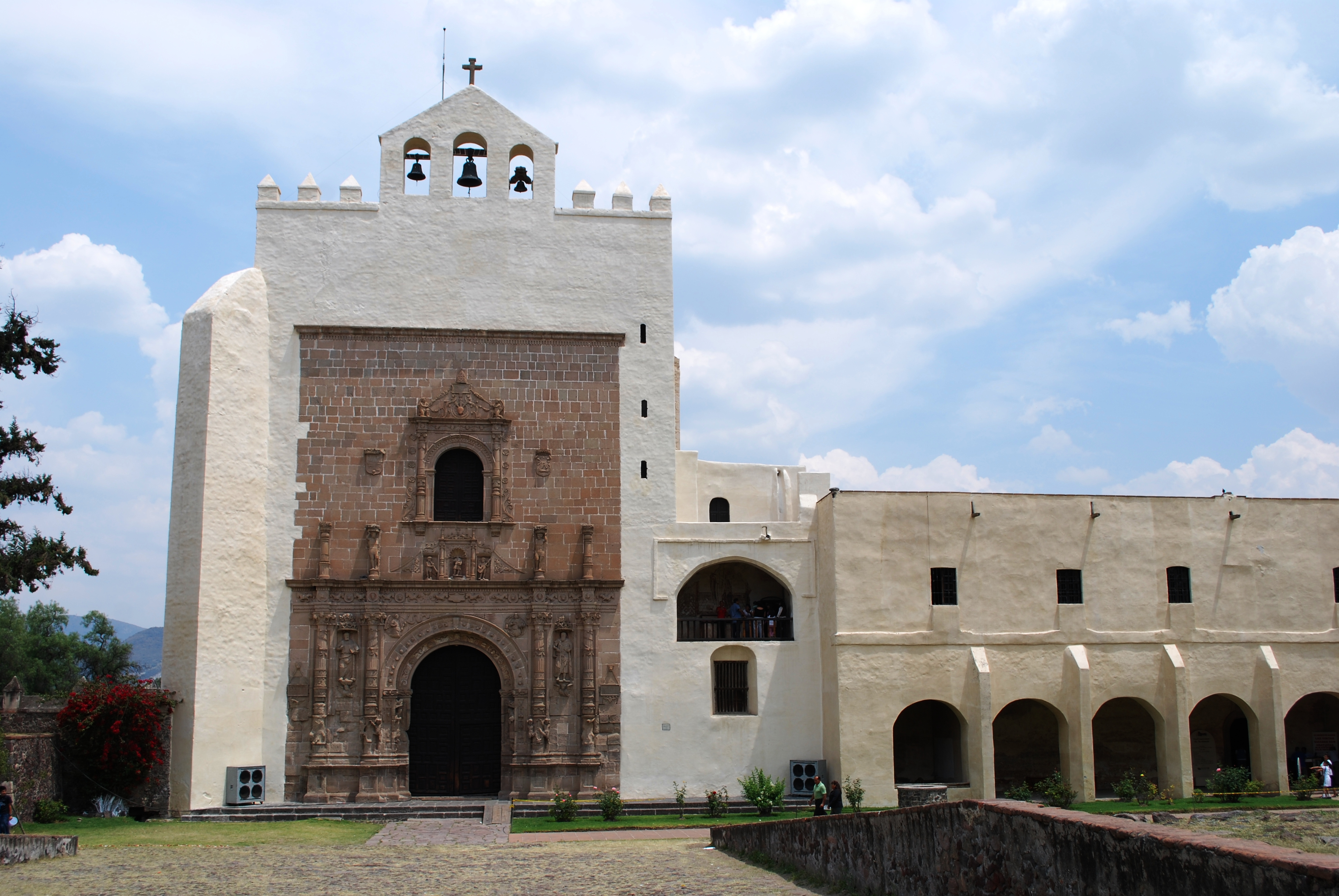 Facade of church and cloister of the former monastery of Acolman, Mexico State